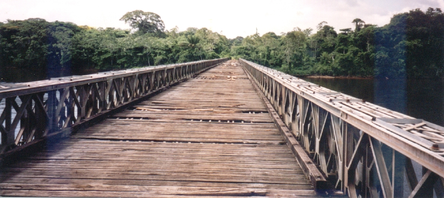 bailey bridge over Coppename river, Suriname. Constructed 1976, photograph December 2002.